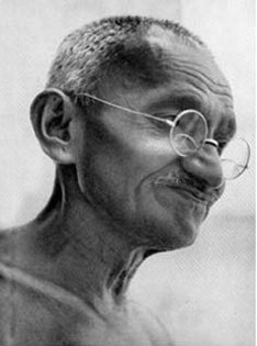 Gandhi in 1929. Note: Google Books snippet view suggests that this photograph was published in: Dinanath Gopal Tendulkar (1952) Mahatma: life of Mohandas Karamchand Gandhi, vol. 2, Bombay: Jhaveri & Tendulkar OCLC 162355722 Can't be sure since the snippet is so small. This is not necessarily the earliest publication. Another book which may contain this photo is: Krishnamurti YG (1943) Independent India and a new world order, Bombay: Popular Book Depot OCLC 12697547 The text of the book acknowledges the Counsic Brothers for a photo or photos of Gandhi.